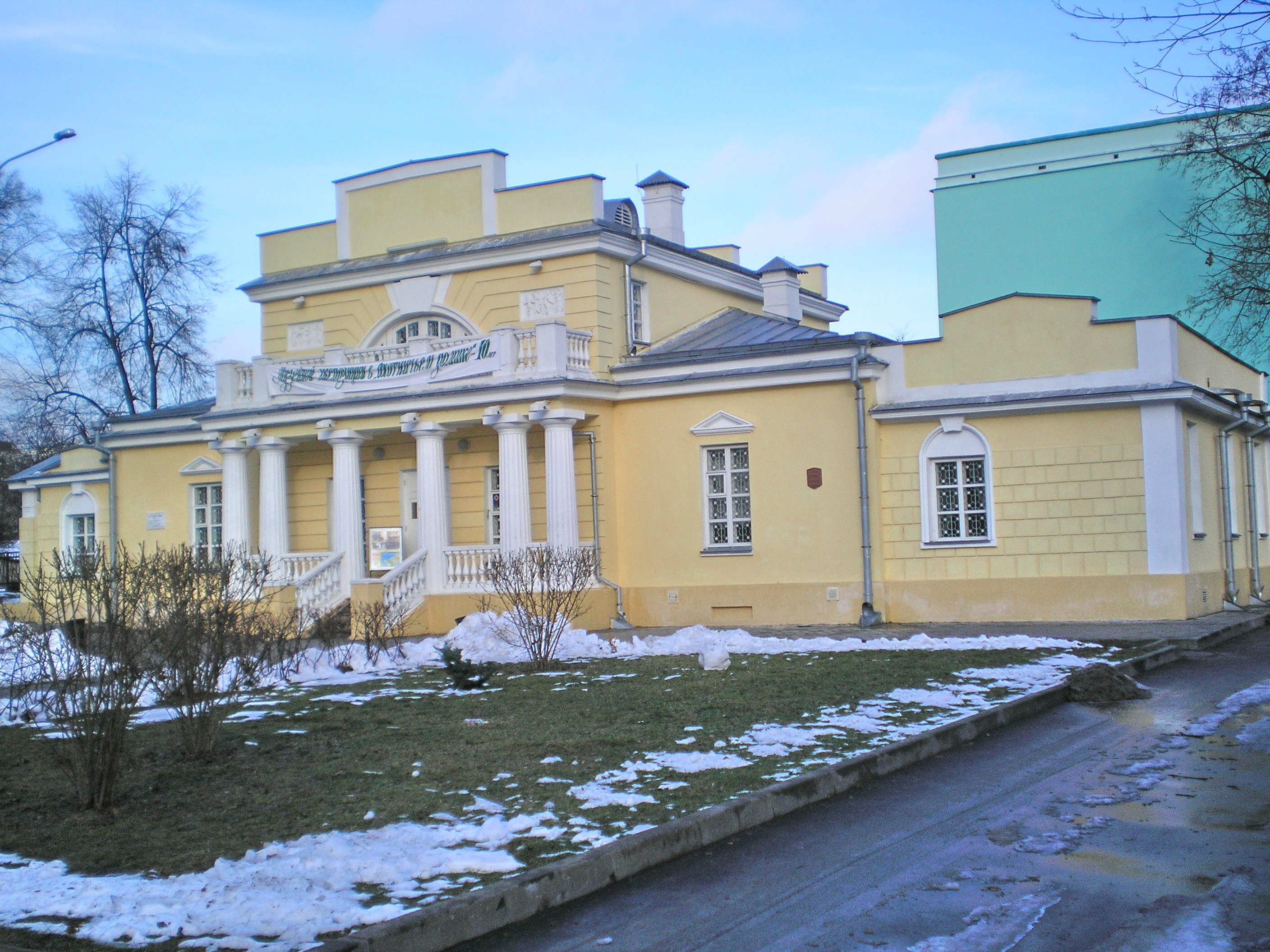 Hunter Building in Gomel (19 cent.) Охотничий домик в Гомеле